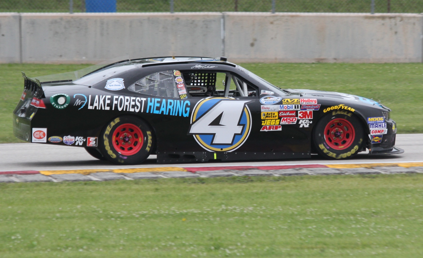 The passenger side of Jeffrey Earnhardt Nationwide car during the 2014 Gardner Denver 200 at Road America. Taken racing in turn 13.